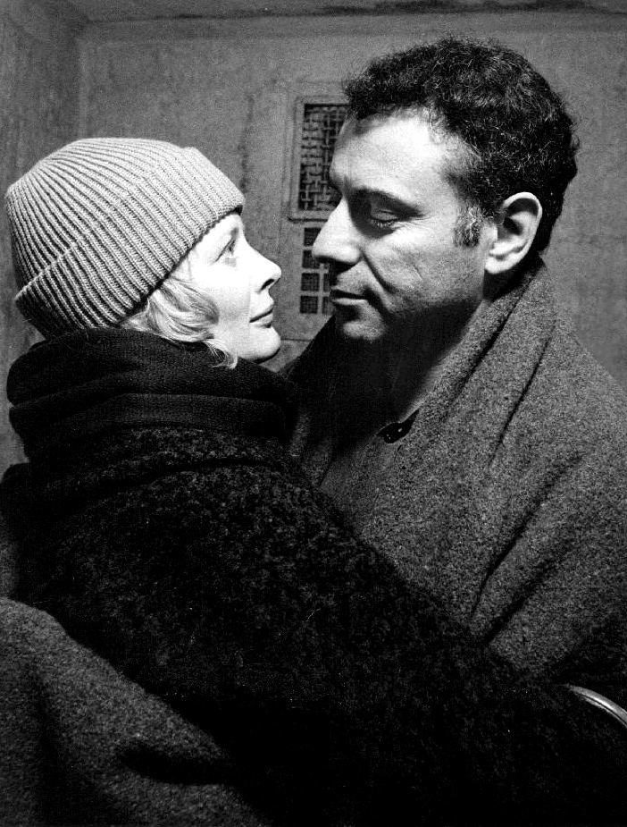 Publicity photo of Alan Arkin as Simas Kudirka & Shirley Knight as his wife. TV special, "Defection of Simas Kudirka" (1978). Copyright found for film only, nothing for photos, which require separate copyright.